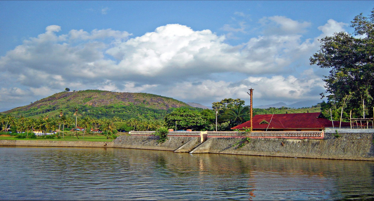 Nellikulangara temple